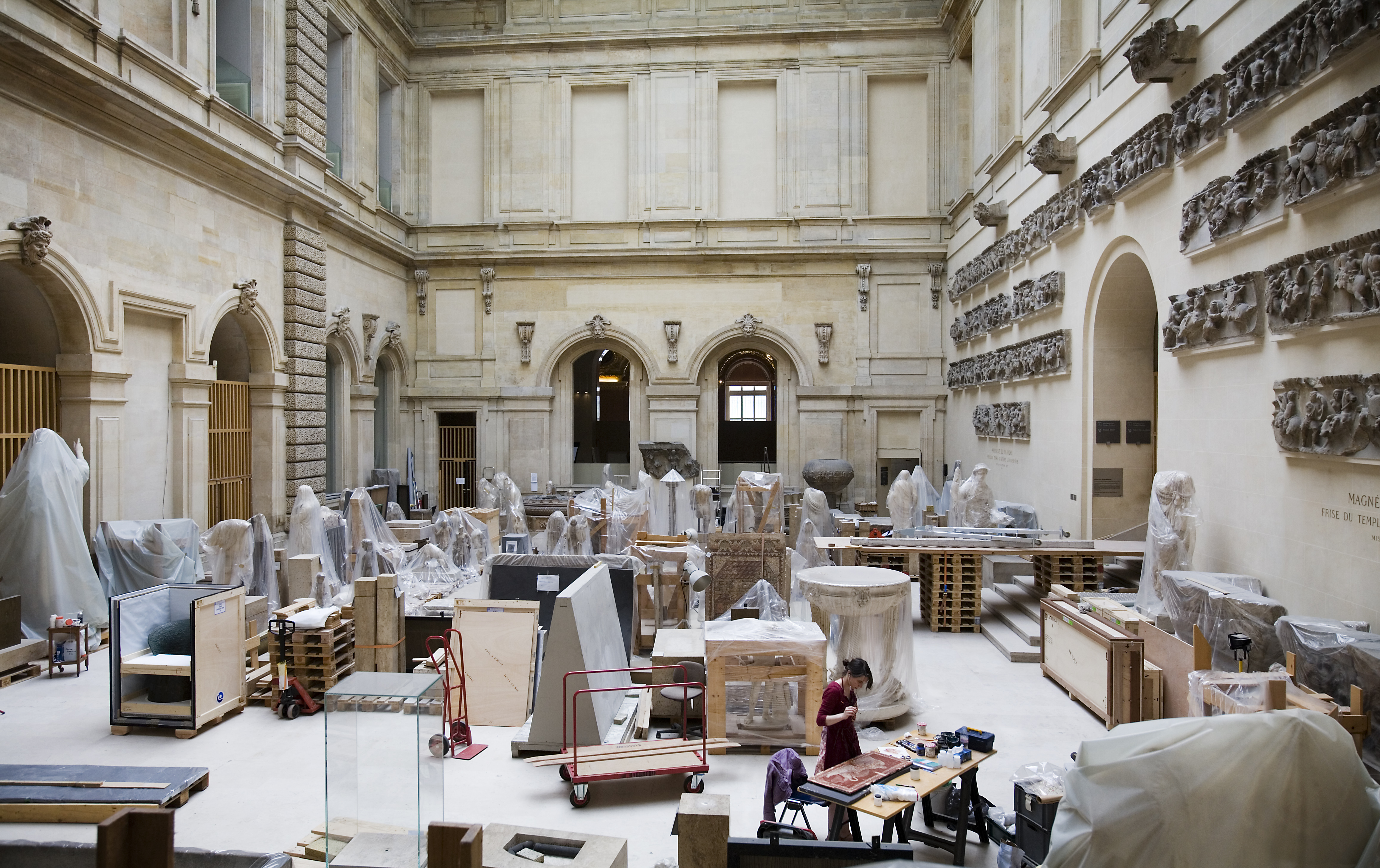 Restoration workshops in the Musee Du Louvre, Paris